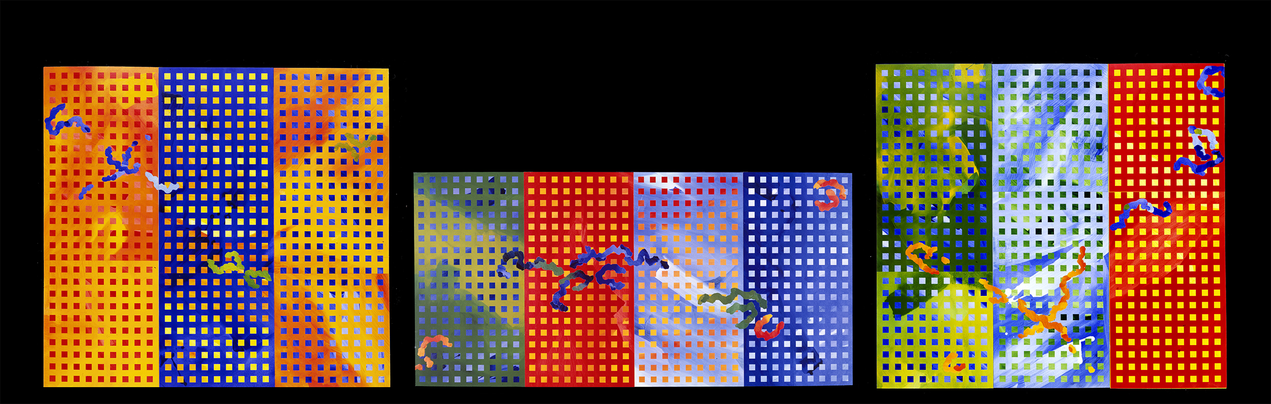 Brian Clarke's acrylic and collage designs for the stadia and arena stage sets for Paul McCartney's 1989-1990 World Tour.